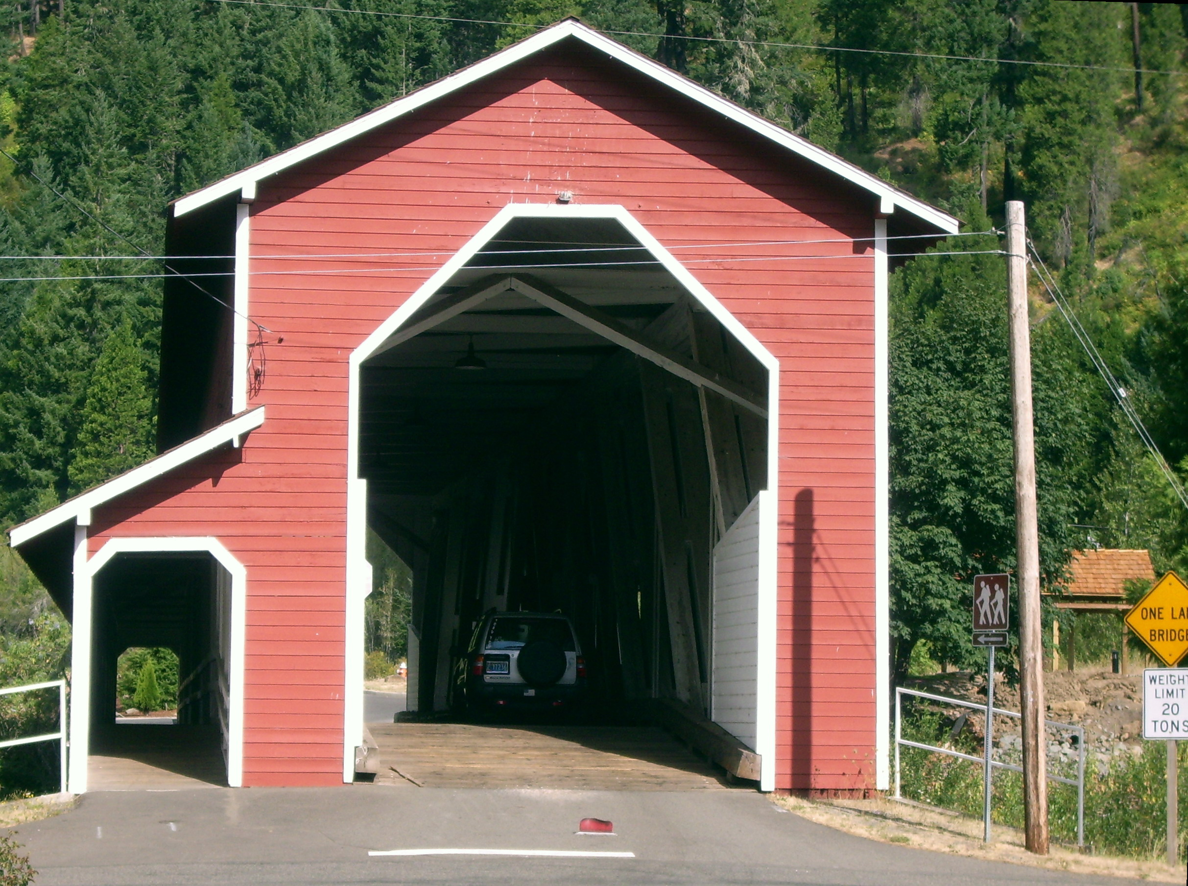 Office Bridge seen from the south end with an SUV for scale; the pedestrian walkway is clearly visible.